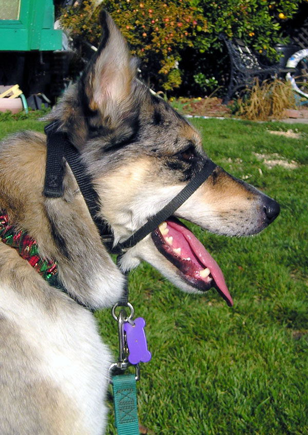 Dog halter-style collar Photo by Elf